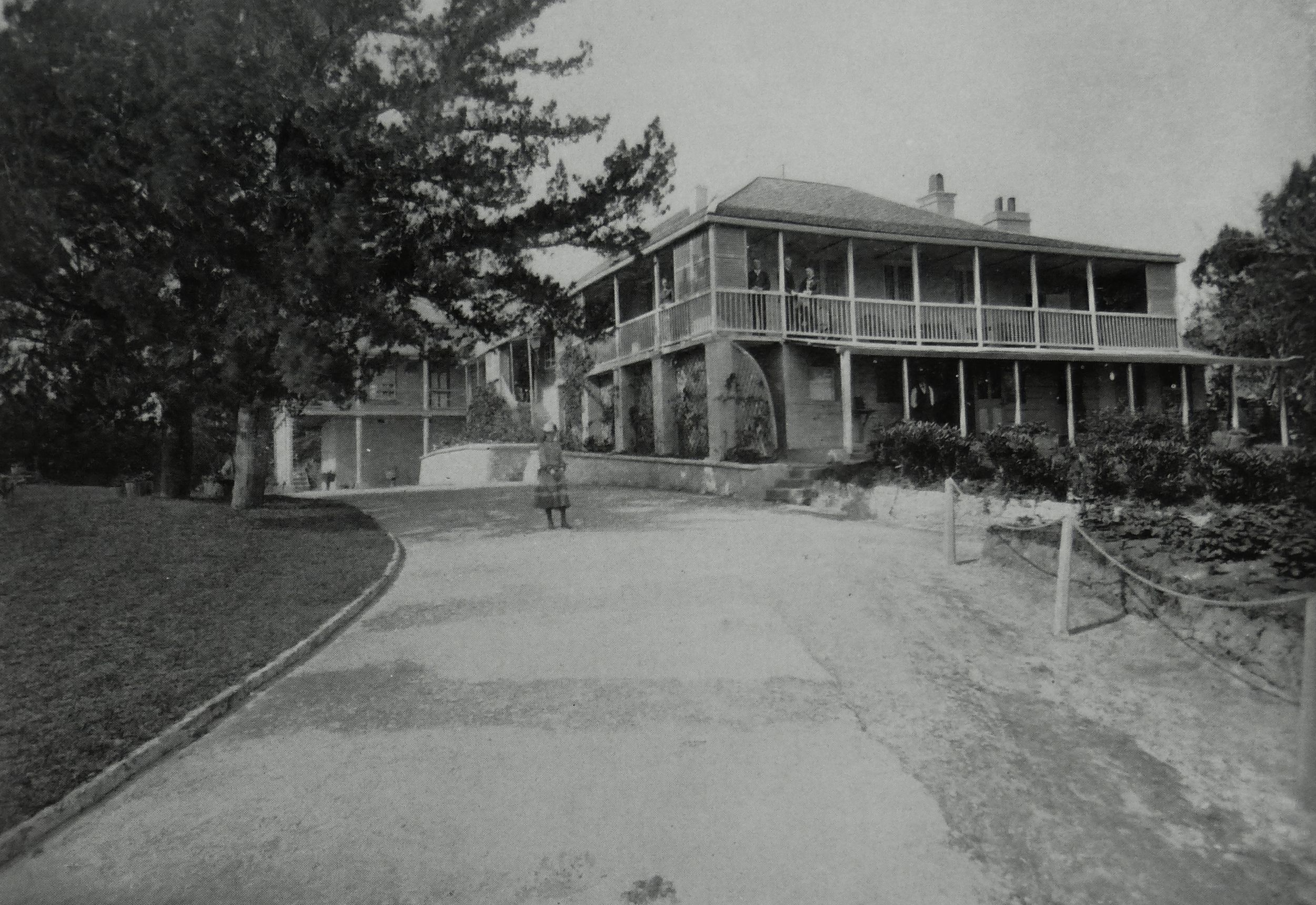 A photograph of the Admiralty House in Bermuda. This was originally an estate called St. John's Hill, purchased from the Dunscomb faily, but was renamed Clarence Hill by the Admiralty.